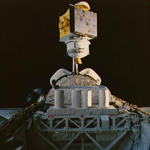 The SATCOM Ku-1 commuications satellite spins from the protective shield of Columbia STS-61-C